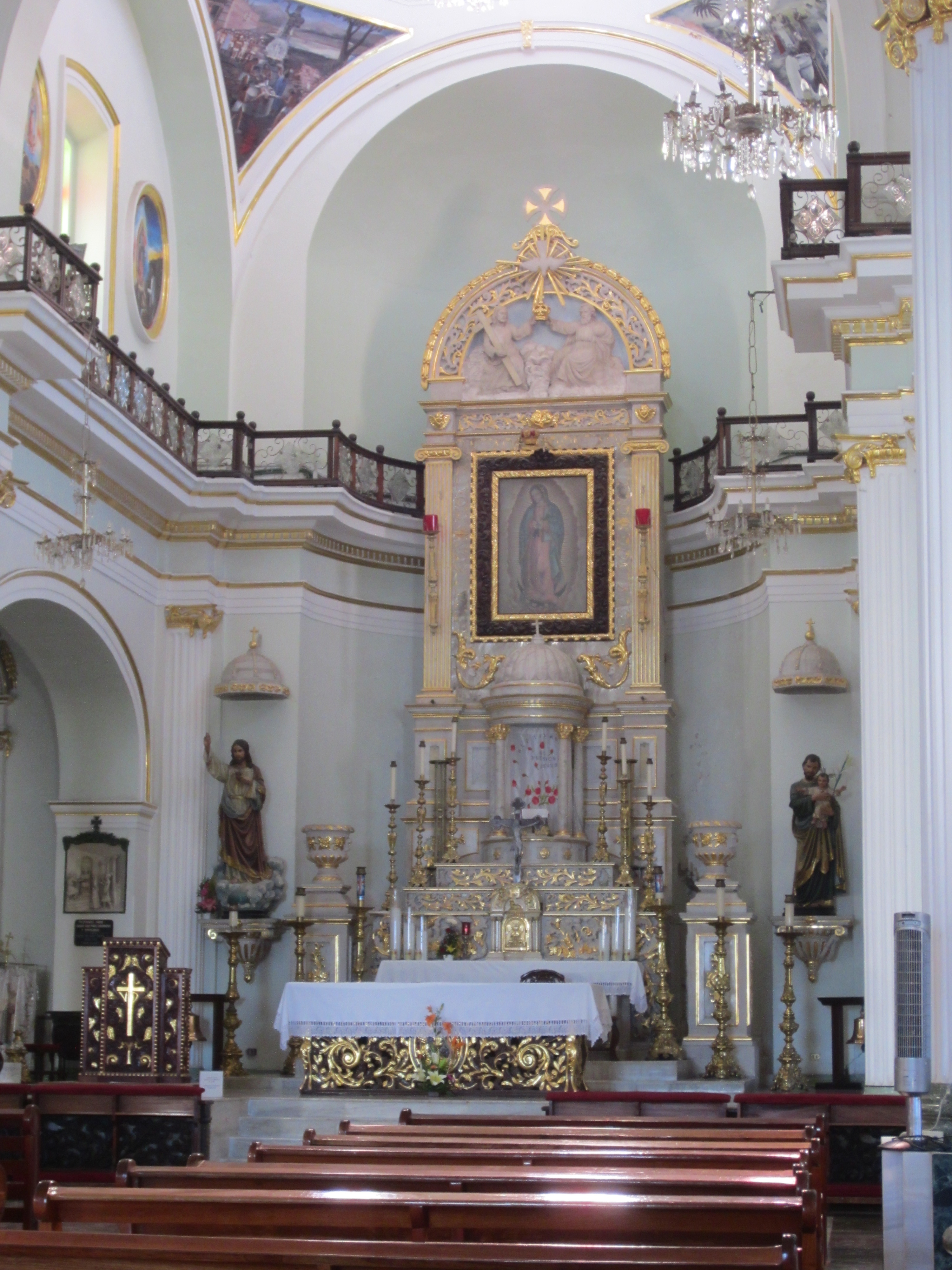 Church of Our Lady of Guadalupe, Puerto Vallarta (2014)